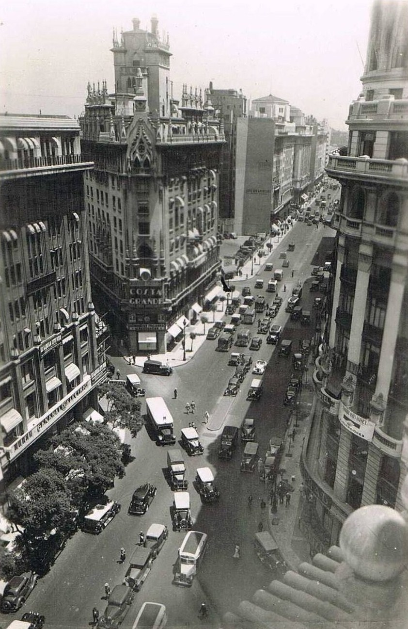 Avenida Roque Sáenz Peña (Diagonal Norte) in the '30s